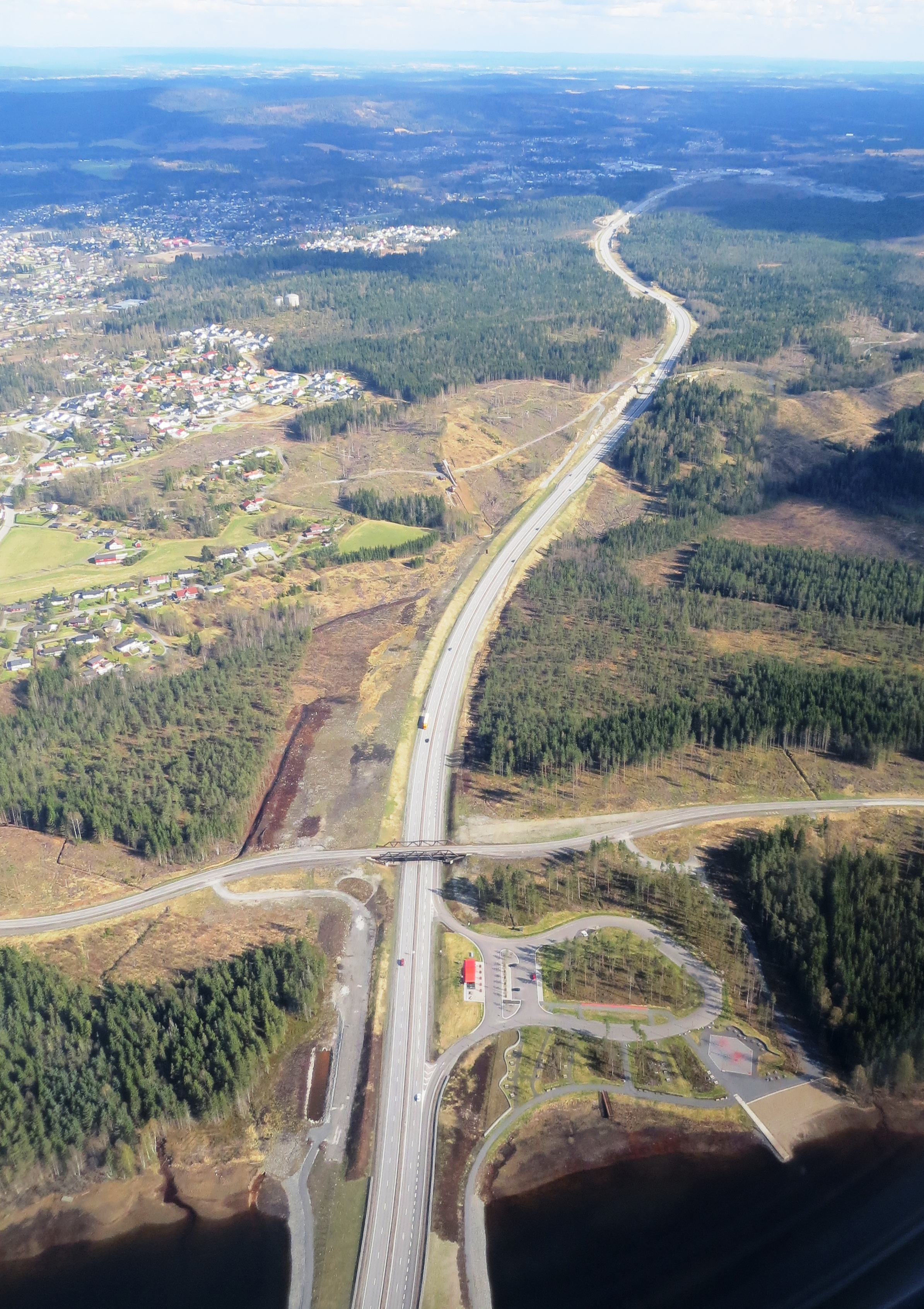 Image from the Råholt area with the Andelva river, and E6 highway. Norway.